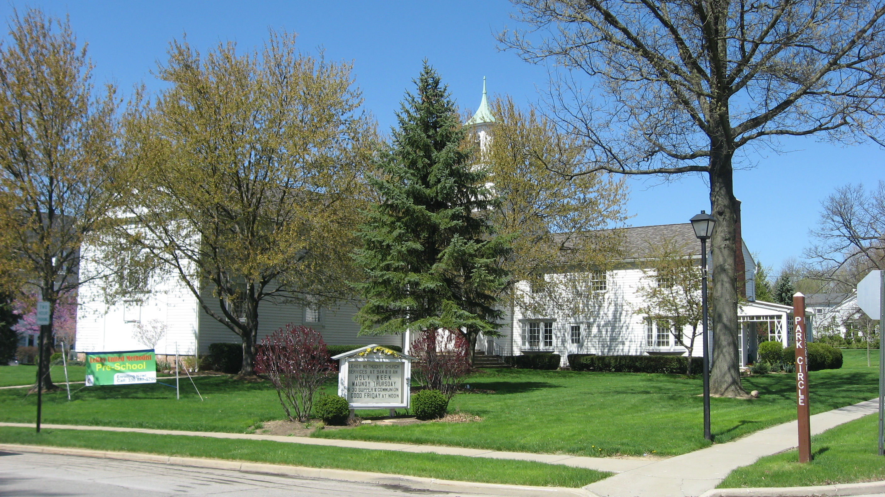 Front of the Leroy United Methodist Church, located at 7 Park Circle on the village green in Westfield Center, Ohio, United States. Church website.